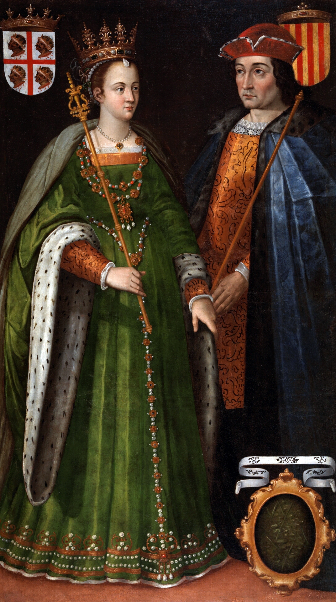 Idealistic portrait of queen Petronila of Aragon and count Ramon Berenguer IV of Barcelona